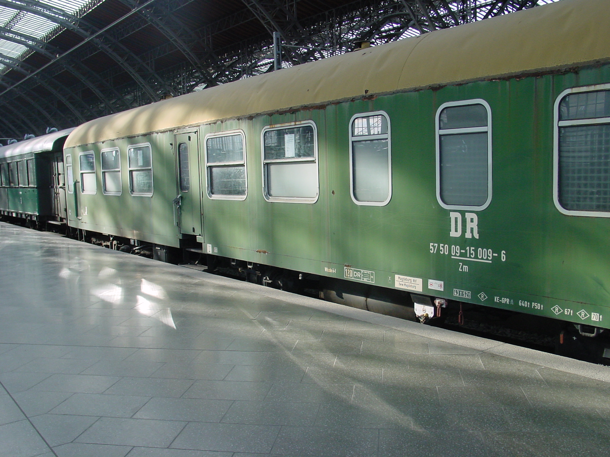 Prisoner transport wagon in Leipzig Central Station